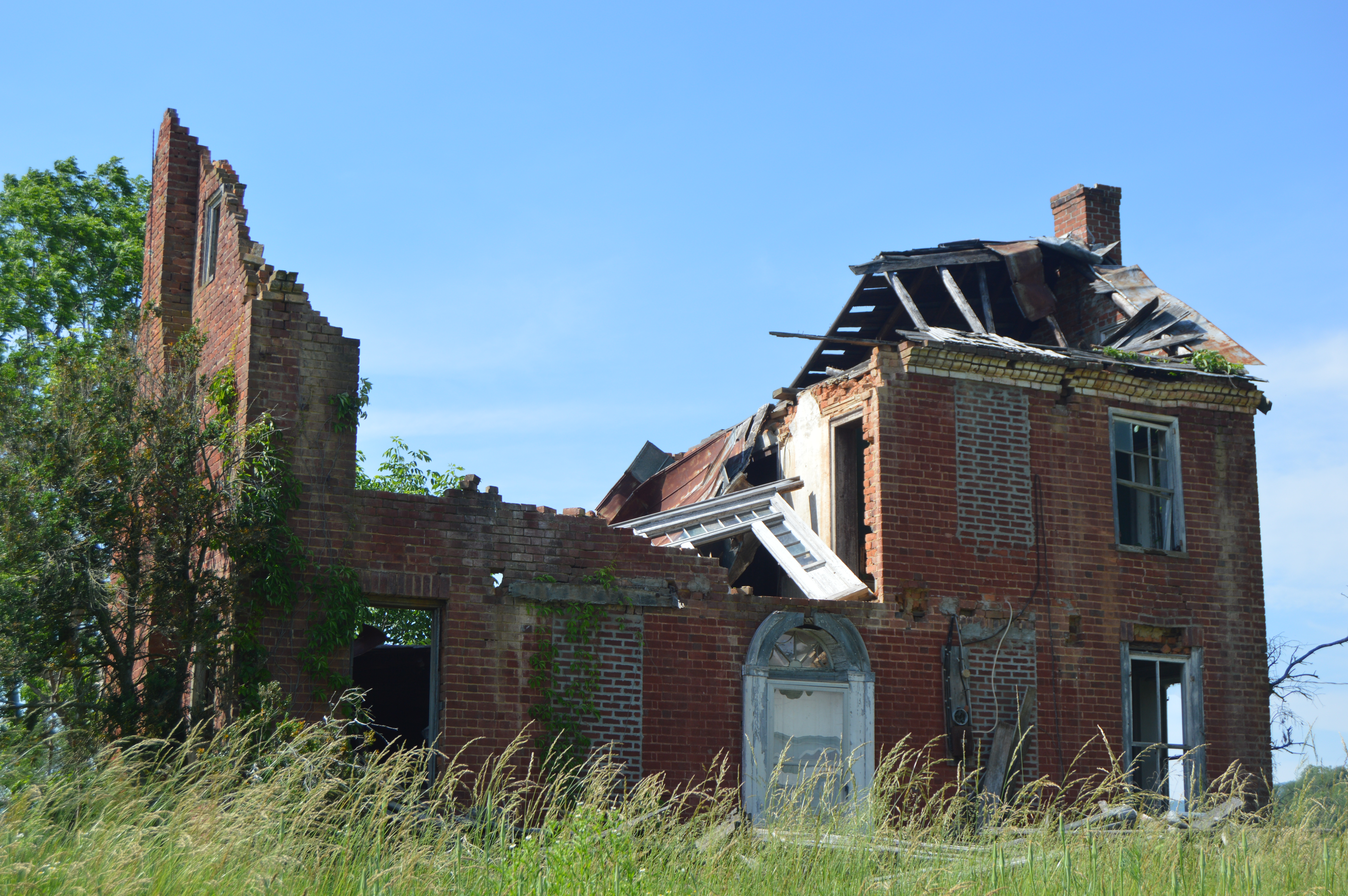 Front and western end of a partially collapsed I-house on Estaline Valley Road just southwest of the Augusta Correctional Center in Augusta County, Virginia, United States. This angle provides a partial view of the interior structure of the house, which featured a mix of Federal and Greek Revival influences, as seen in the fanlight over the entrance and the collapsed remnants of the structure around the second-story sidelights and transom light (here was formerly a doorway to a porch), respectively. Note that three of the front windows have been bricked up, but unusually, attic windows are placed next to the chimneys.